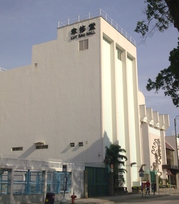 Lut Sau Hall is the school hall of Chiu Lut Sau Memorial Secondary School, which is located at No.7 Tai Yuk Road, Yuen Long, New Territories, Hong Kong.